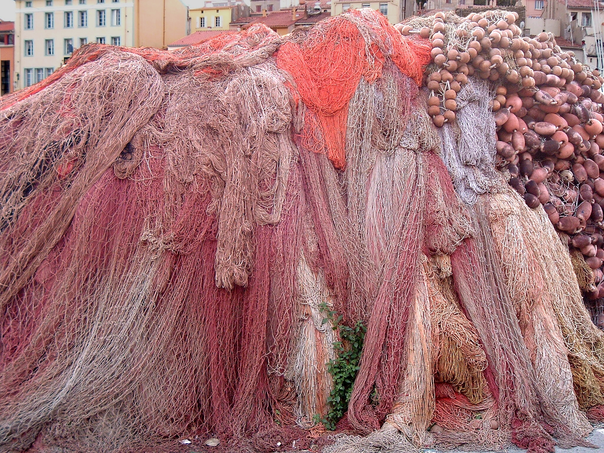 Fishing nets in Port-Vendres, Roussillon, France.